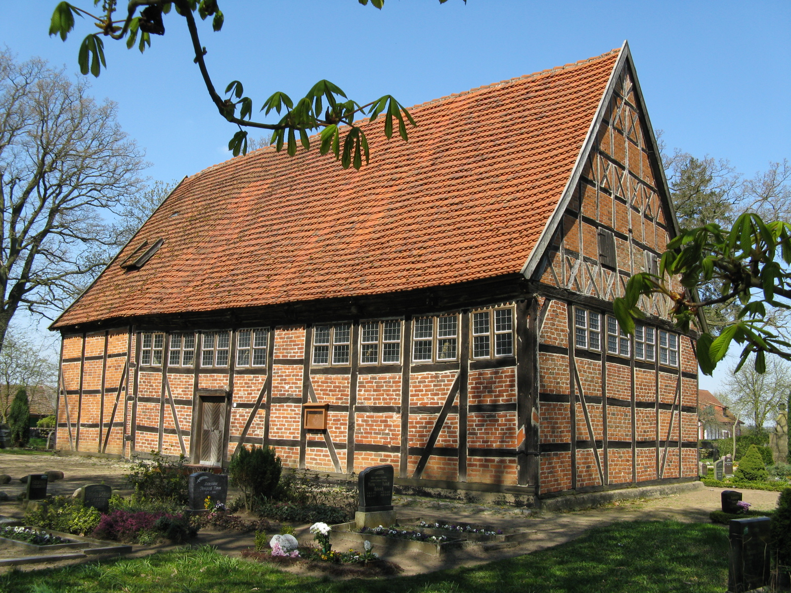 Church in Retzow, Mecklenburg, Germany